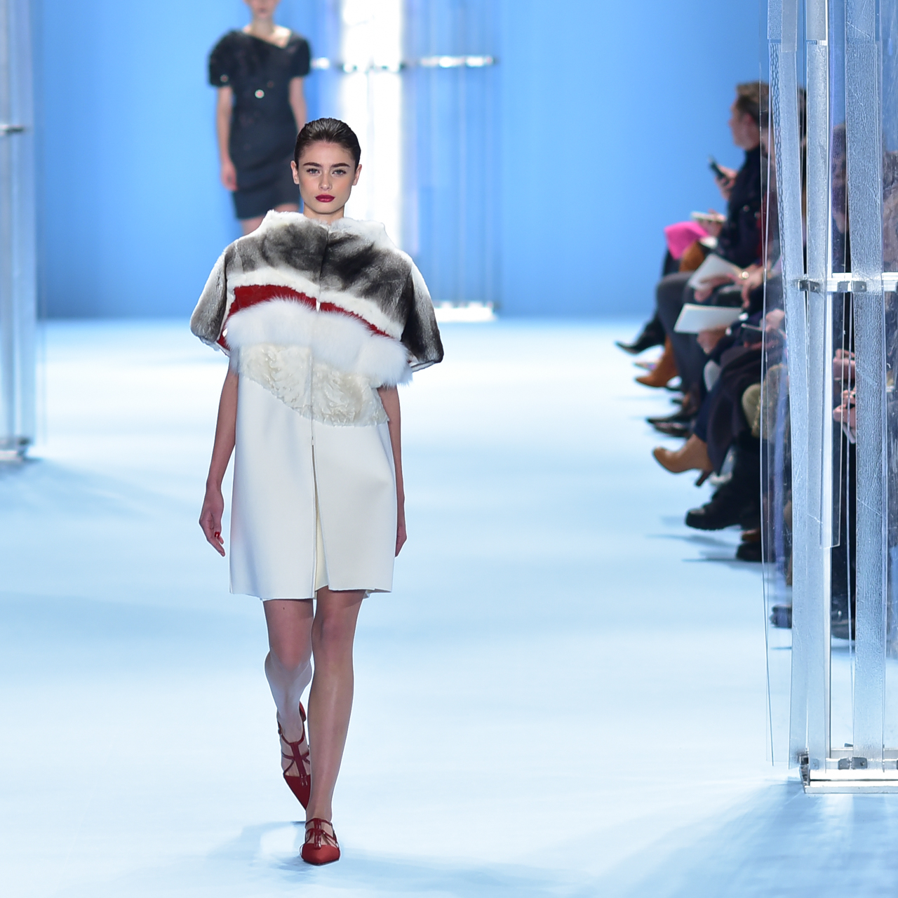 American model Taylor Marie Hill on the show Taylor Hill Carolina Herrera FW15